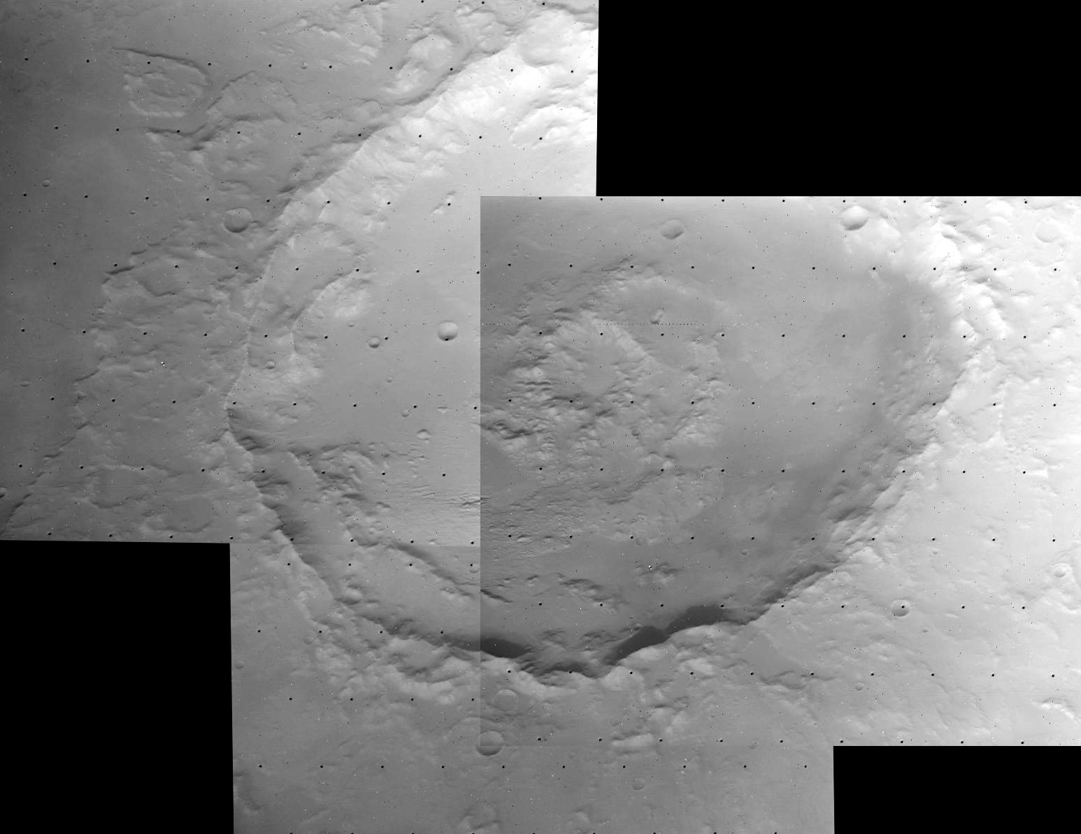 Wahoo crater on Mars. Mosaic of three Viking 1 images from camera B (034A87, 034A88, 034A90). Clear filter was used for these images. Resolution is about 43 m/pixel. North is to the lower left. Statistics below are for the right image: Emission Angle: 34.0 Incidence Angle: 64.1 Latitude: 23.1 Longitude: 326.0 Phase Angle: 30.9